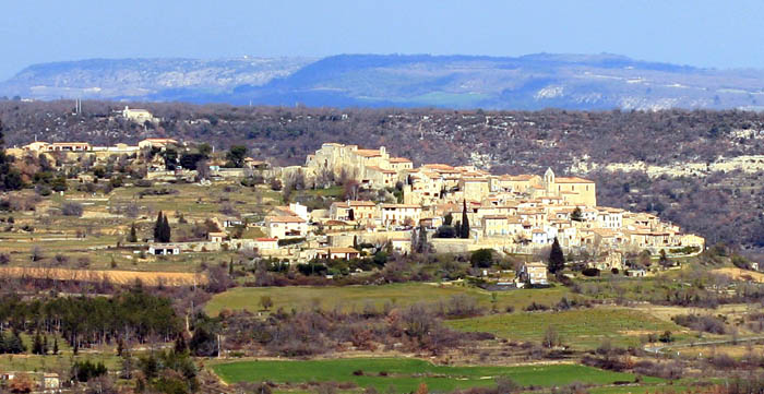 The village of Saint Martin de Castillon, Vaucluse, France